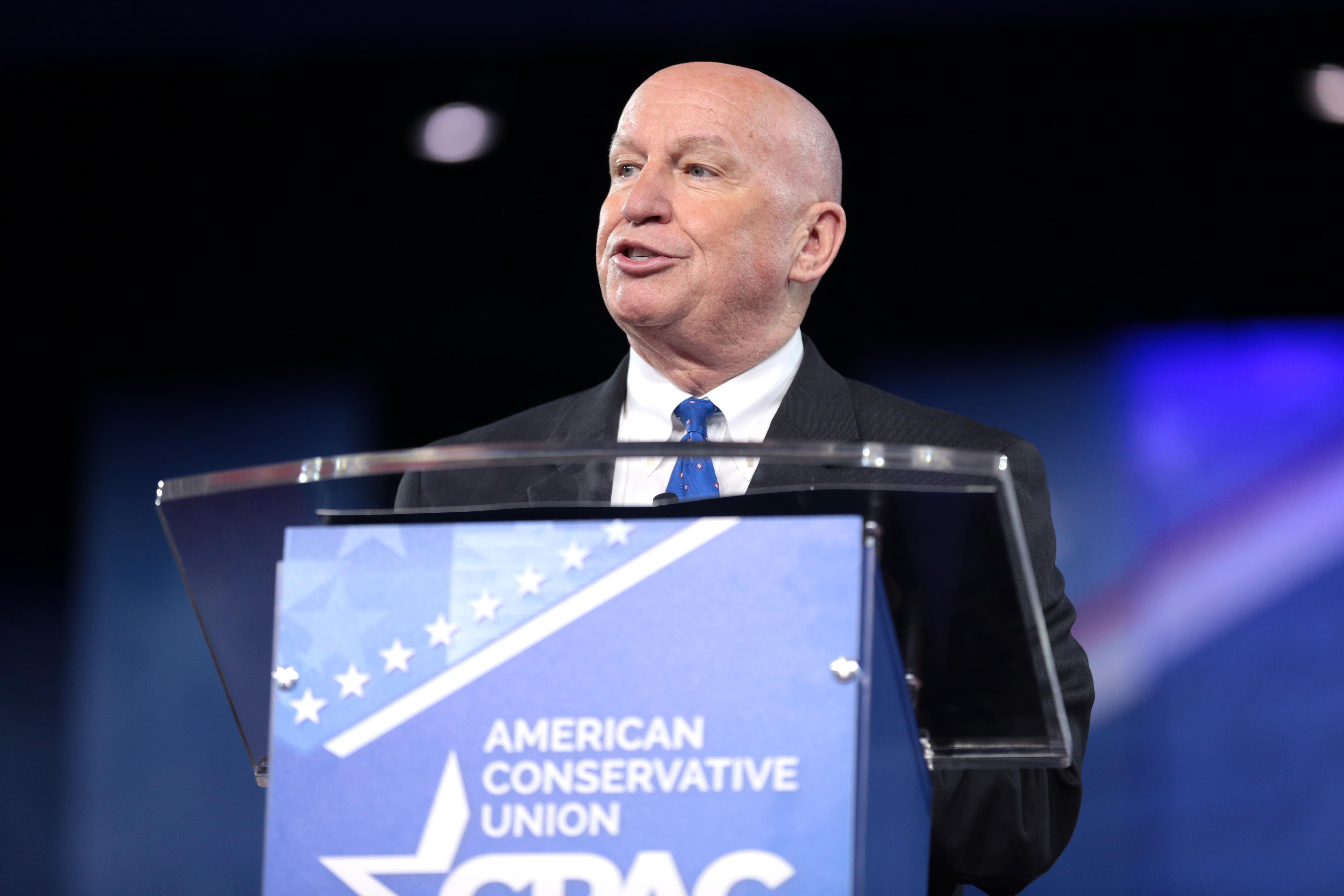 U.S. Congressman Kevin Brady of Texas speaking at the 2017 Conservative Political Action Conference (CPAC) in National Harbor, Maryland.